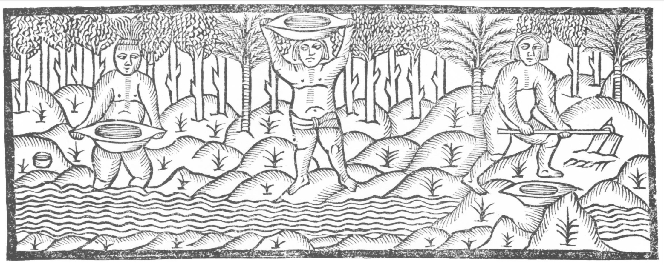 Figure 5. Panning Gold in the Early Colonial Period. Woodcut from La historia general y natural de las Indias, by Gonzalo Fernandez de Oviedo y Valdes, Seville, 1535, p. 66. The New York Public Library, Rare Books Division, Astor, Lenox, and Tilden Foundations